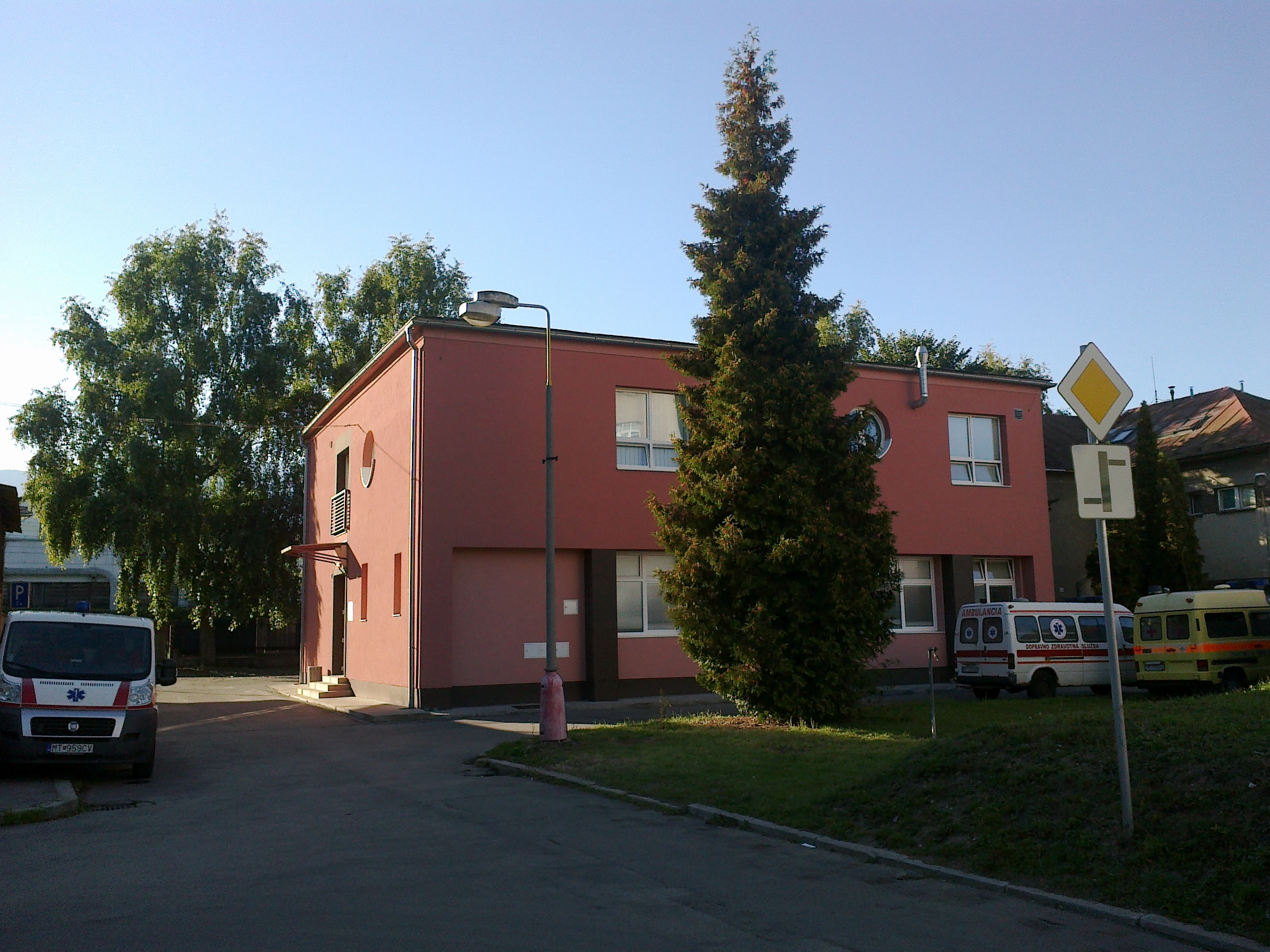 Department of Pathology at Martin University Hospital